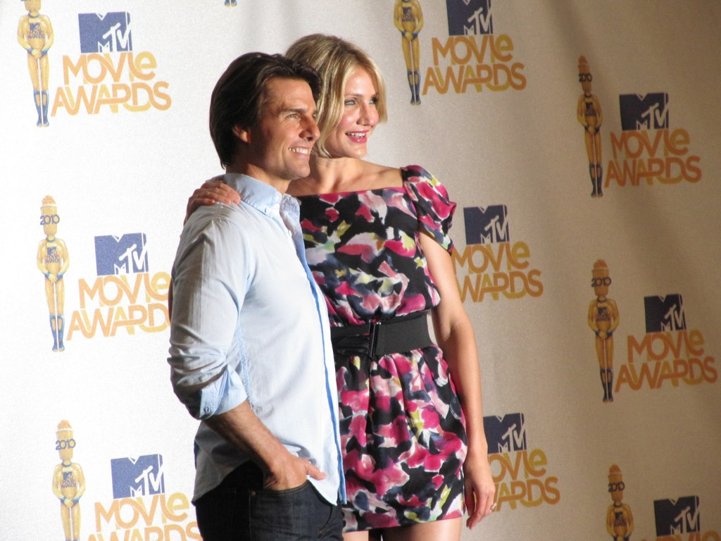 Tom Cruise and Cameron Diaz at the MTV Movie Awards 2010.